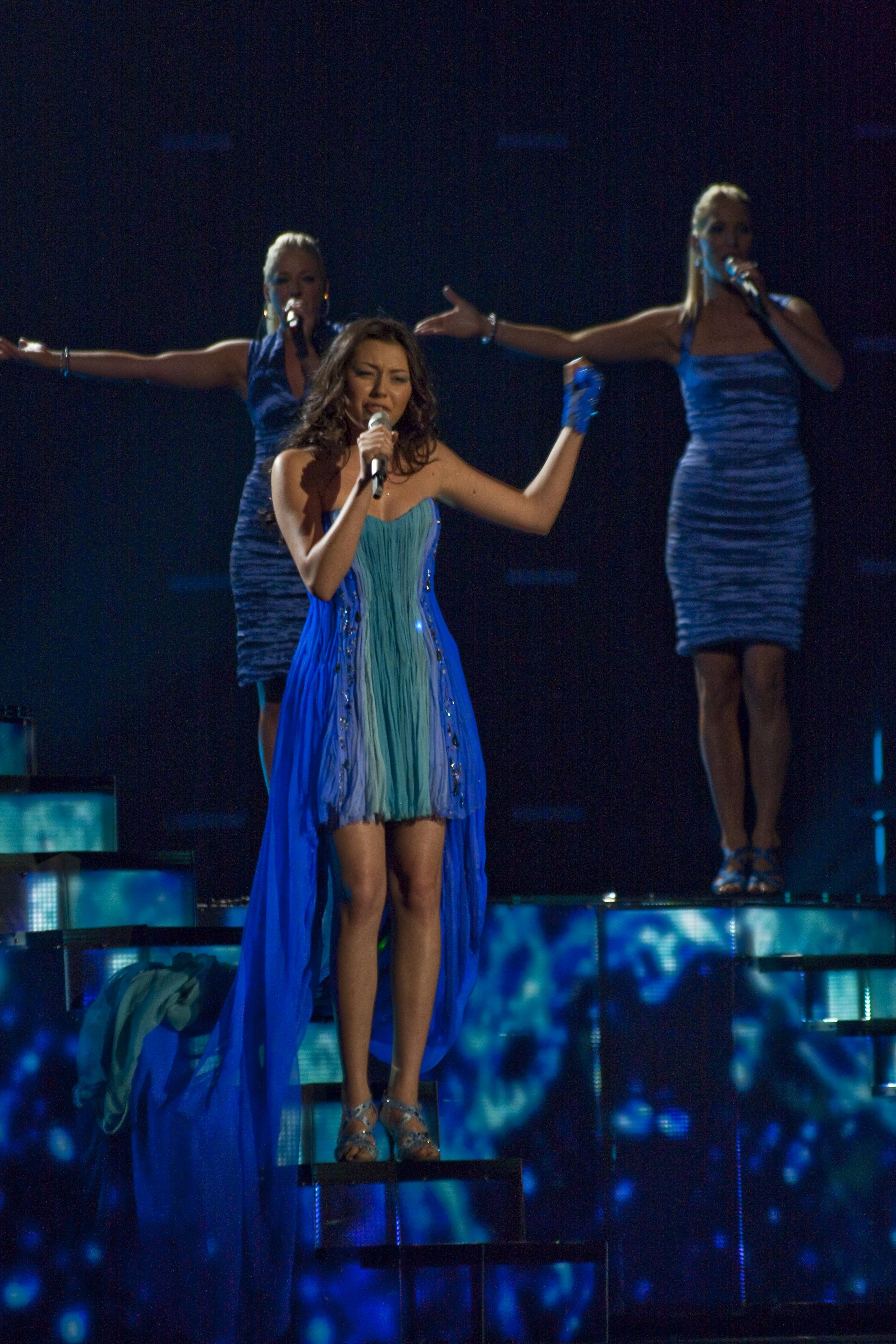 Safura Alizadeh representing Azerbaijan at Eurovision Song Contest 2010 in Oslo, Norway.